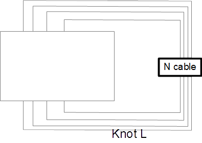 N colored Jones Polynomial